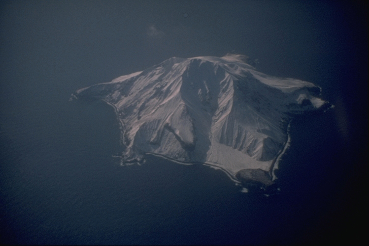 Aerial shot; Bobrof Island and volcano.